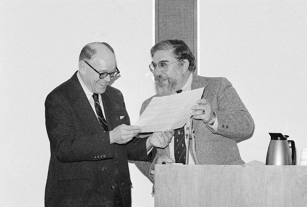 Forrest C. Pogue Receiving Oral History Award from Benis M. Frank. Photograph included in the transcript of the Forrest C. Pogue Oral History Interviews by James C. Tapley, December 19, 1986, in Smithsonian Institution Archives.